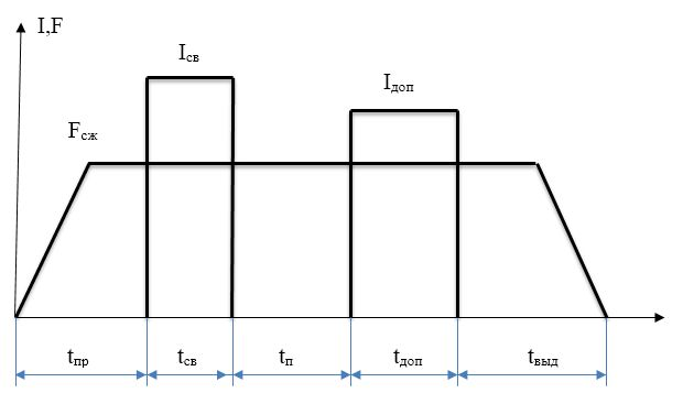 Циклограмма при сварке мартенситно-бейнитных сталей, жесткий режим с импульсом отпуска